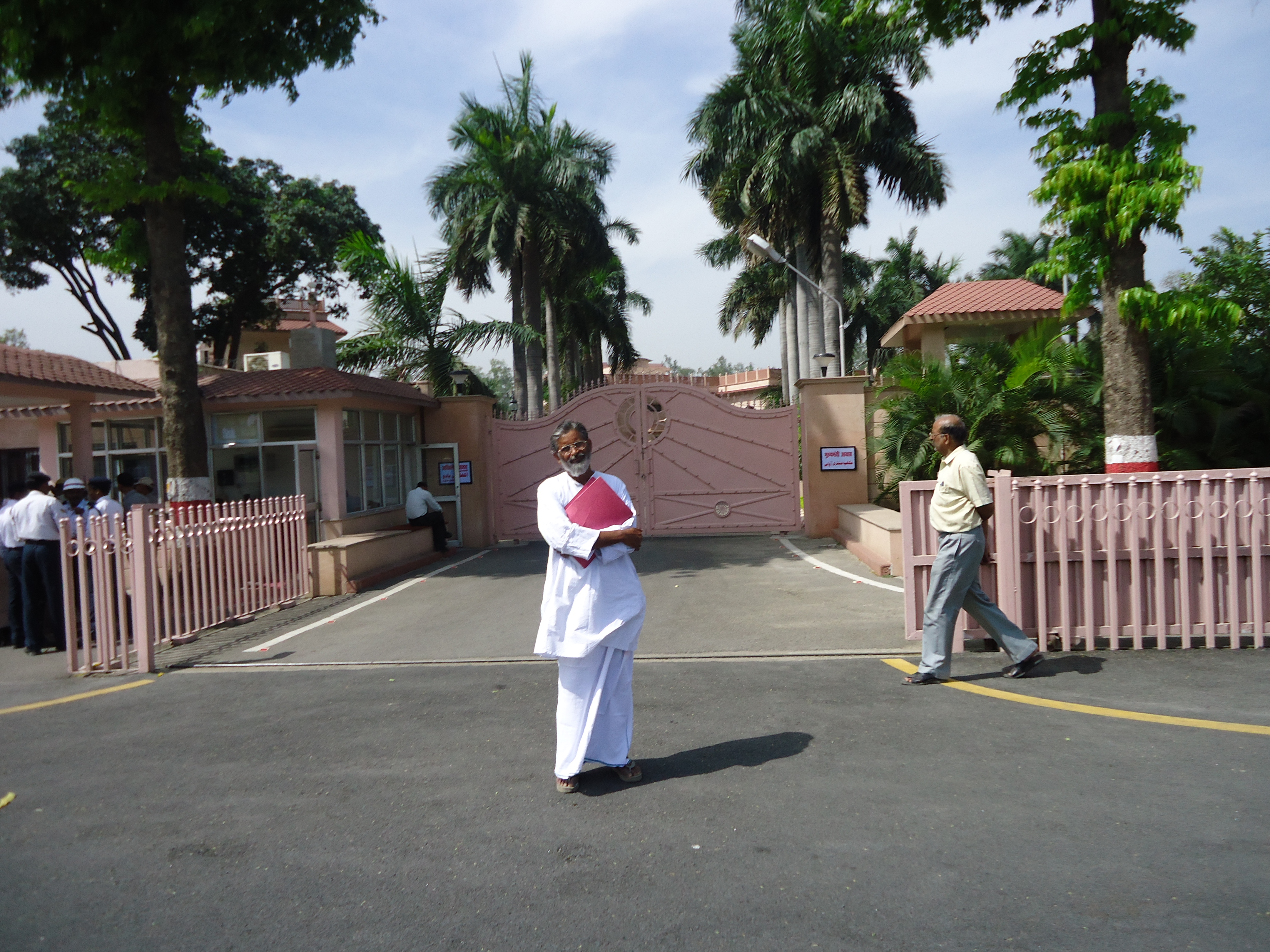 AFTER MEETING WITH CM AT CM RESIDENCE